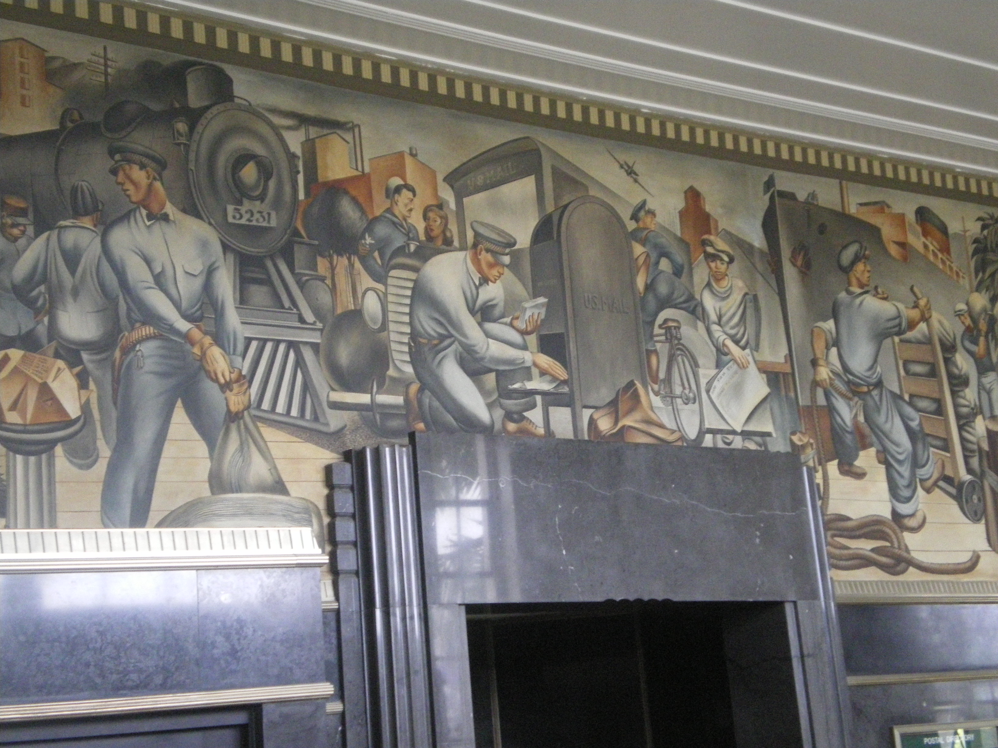 "Mural of Mail Carriers" — inside the WPA era San Pedro Post Office, San Pedro, California.